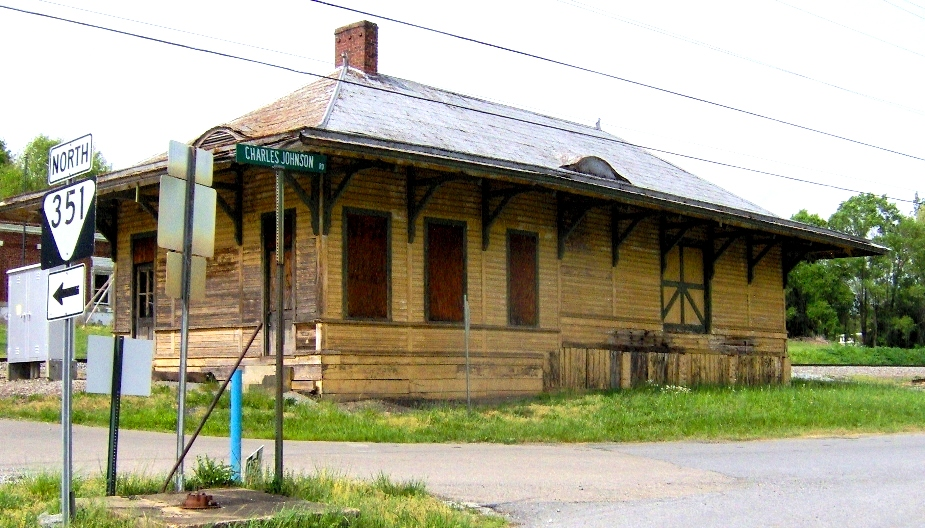 The Chuckey Depot at its original location in Chuckey, Tennessee USA. The depot has since been moved to Jonesborough, Tennessee.